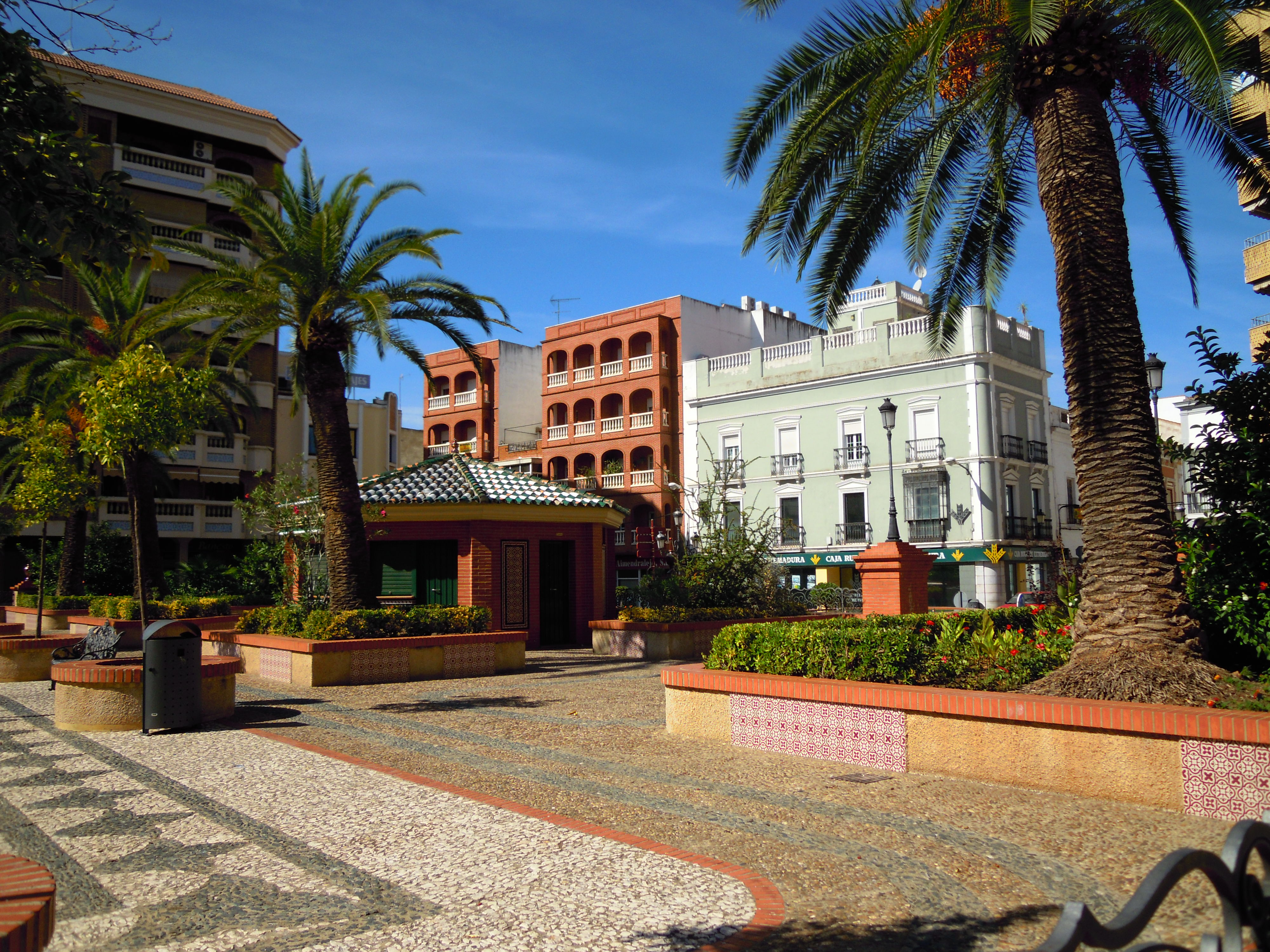 The main square (Plaza de Esponceda) in the town of Almendralejo, Extremadura.